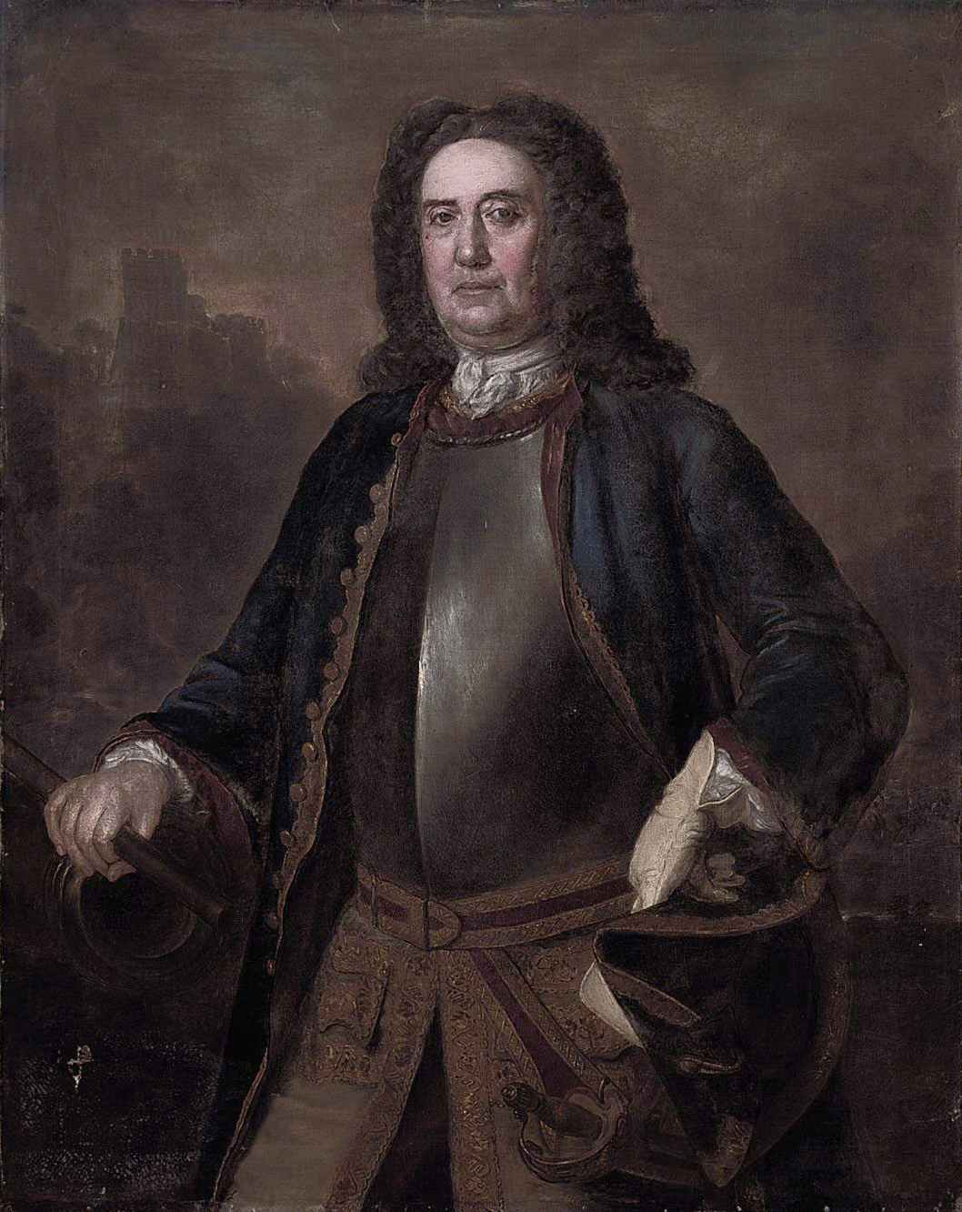 Portrait of Major General Richard St. George (1670-1755), in a blue coat and breast plate, a tricorn in his left hand, his right hand on a canon, a castle beyond inscribed, signed and dated 'Richard S. George Esq. Major General of His Majestys Forces. Aetatis Sua. 74. Stepn. Slaughter Pinx Dublin 1744.' (lower left) oil on canvas, unframed 127 x 101.6 cm.